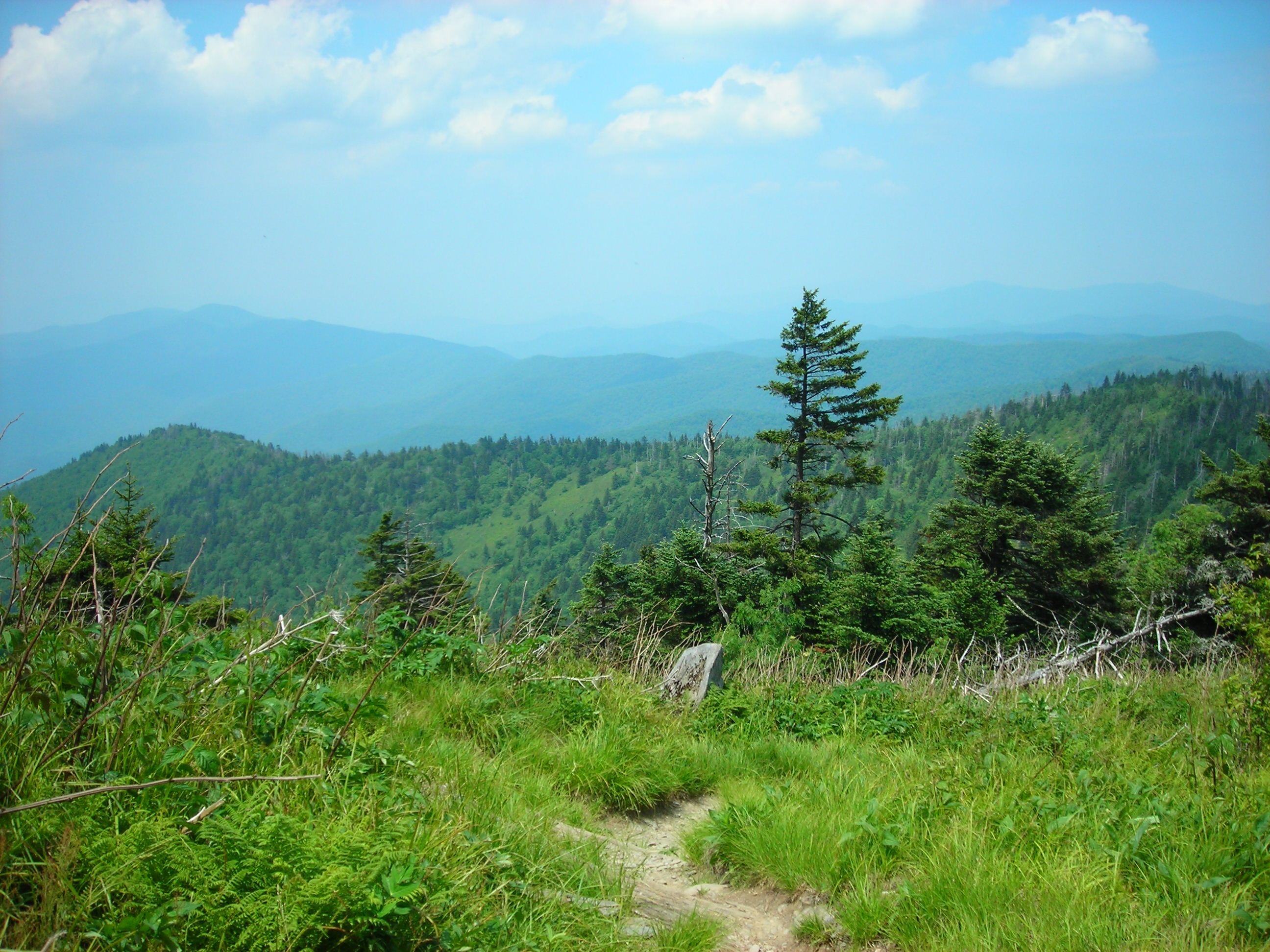 The Appalachian Trail, which leads over 2,100 miles from Maine to Georgia, seen here between Clingmans Dome and Double Springs Gap in the Great Smoky Mountains National Park.